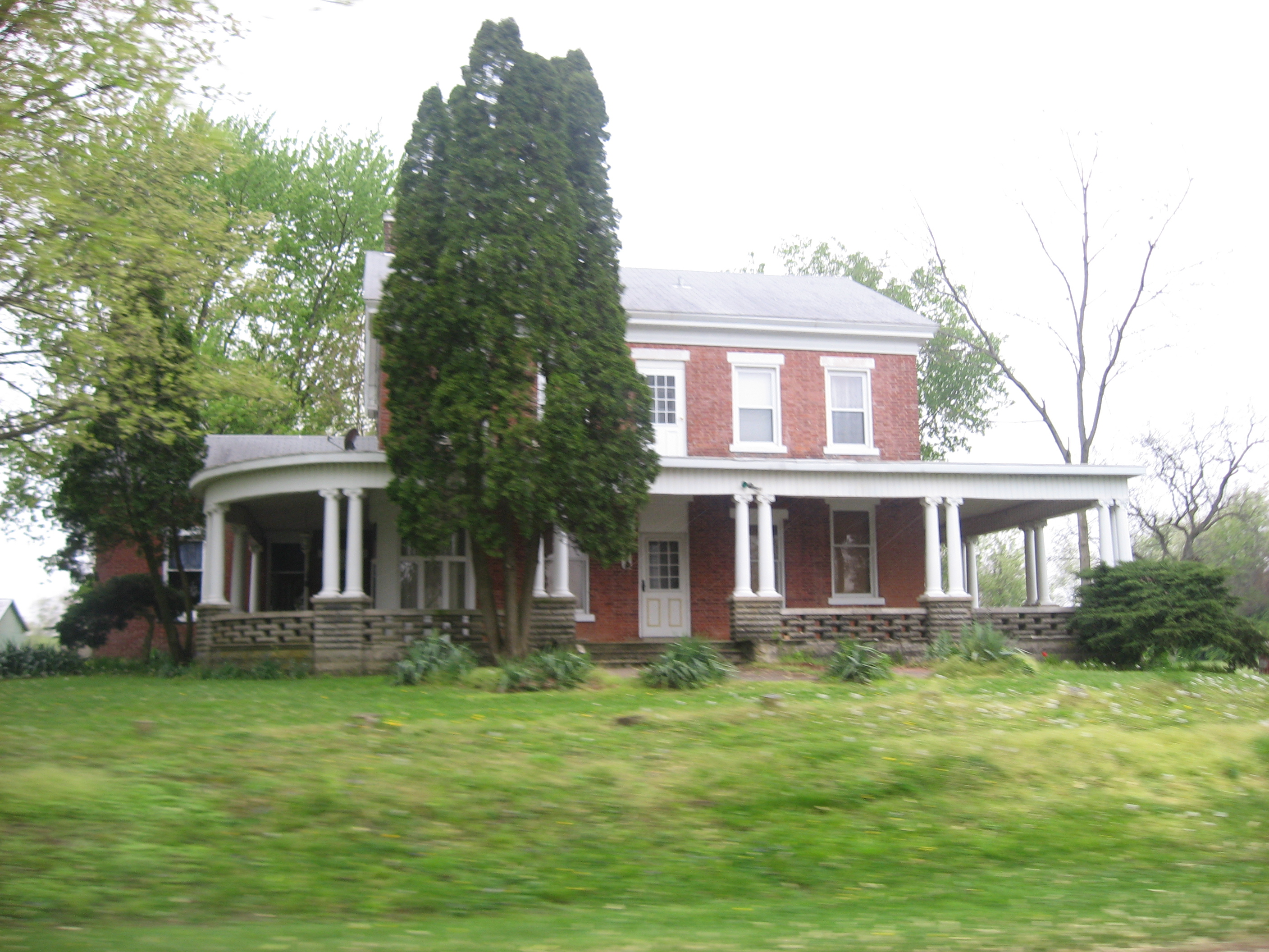 Front of the Andrew Brier House, located just southwest of the junction of Old U.S. Route 41 and W300N at Carbondale in Liberty Township, Warren County, Indiana, United States. Built in 1855, it is listed on the National Register of Historic Places.